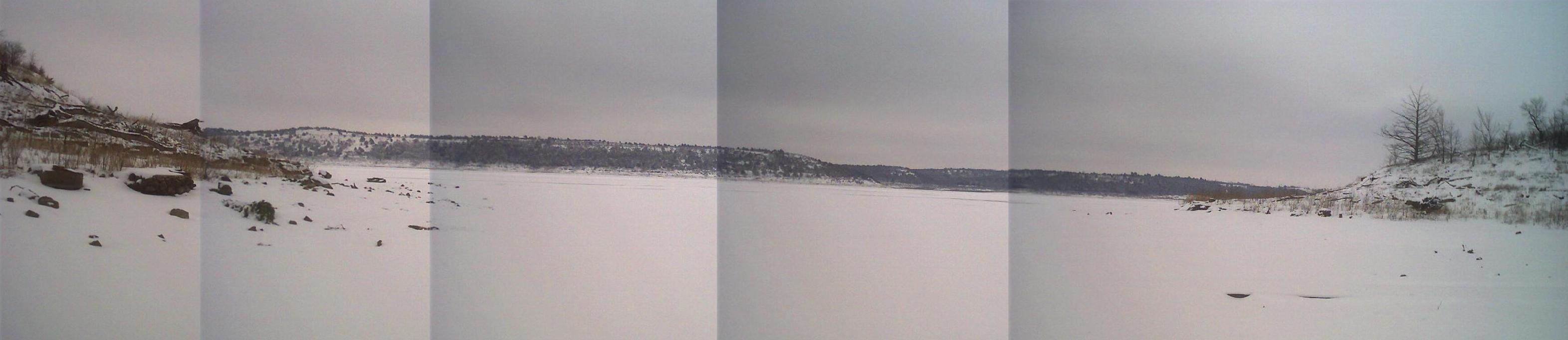 A panoramic view of frozen Tuttle Creek Lake in Northeast Kansas during January, 2007.